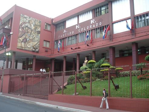 Colorado Party ANR House